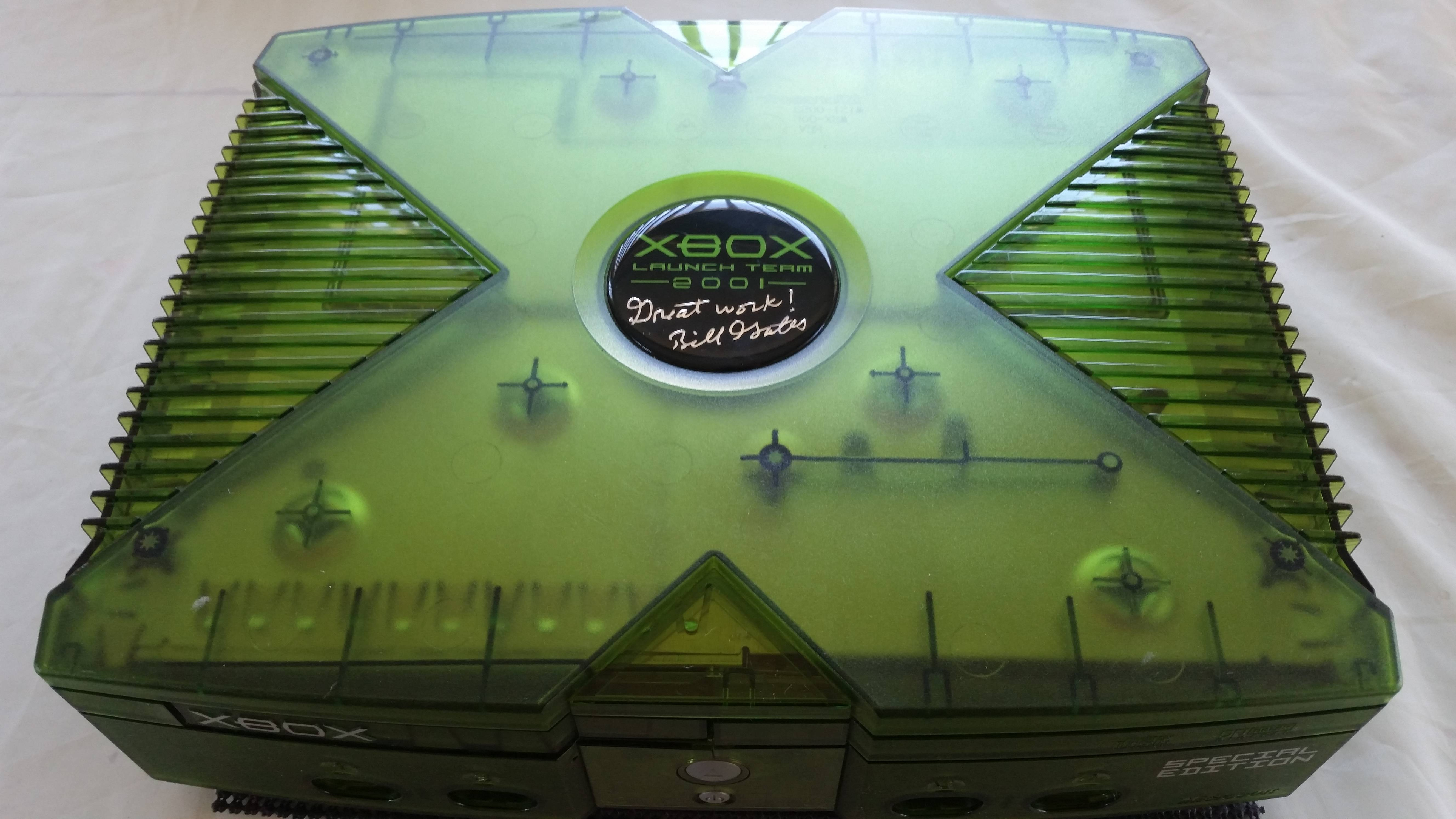 Overhead view of a 2001 Launch Team Edition original Xbox